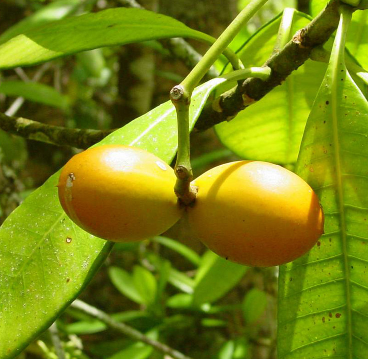 Branchlet with apocarpous fruit composed of paired mericarps (Vaipupui, Nuku Hiva, Butaud 8)